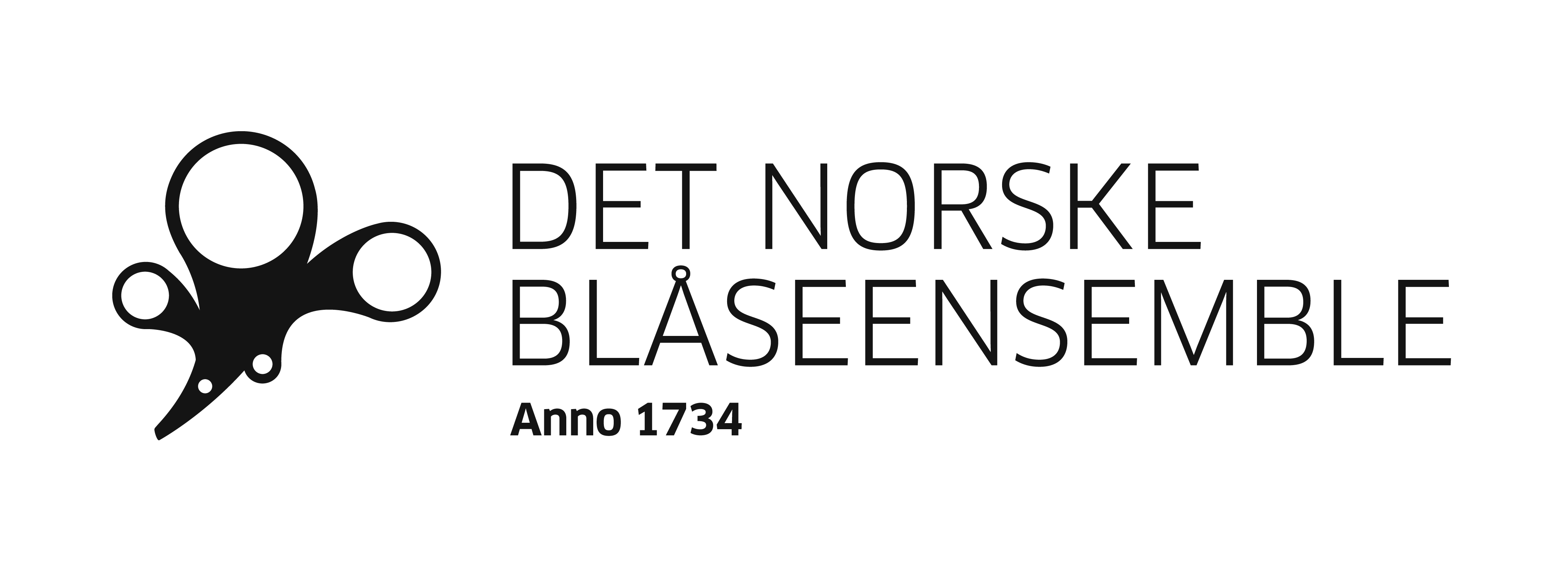 The Norwegian Wind Ensemble logo